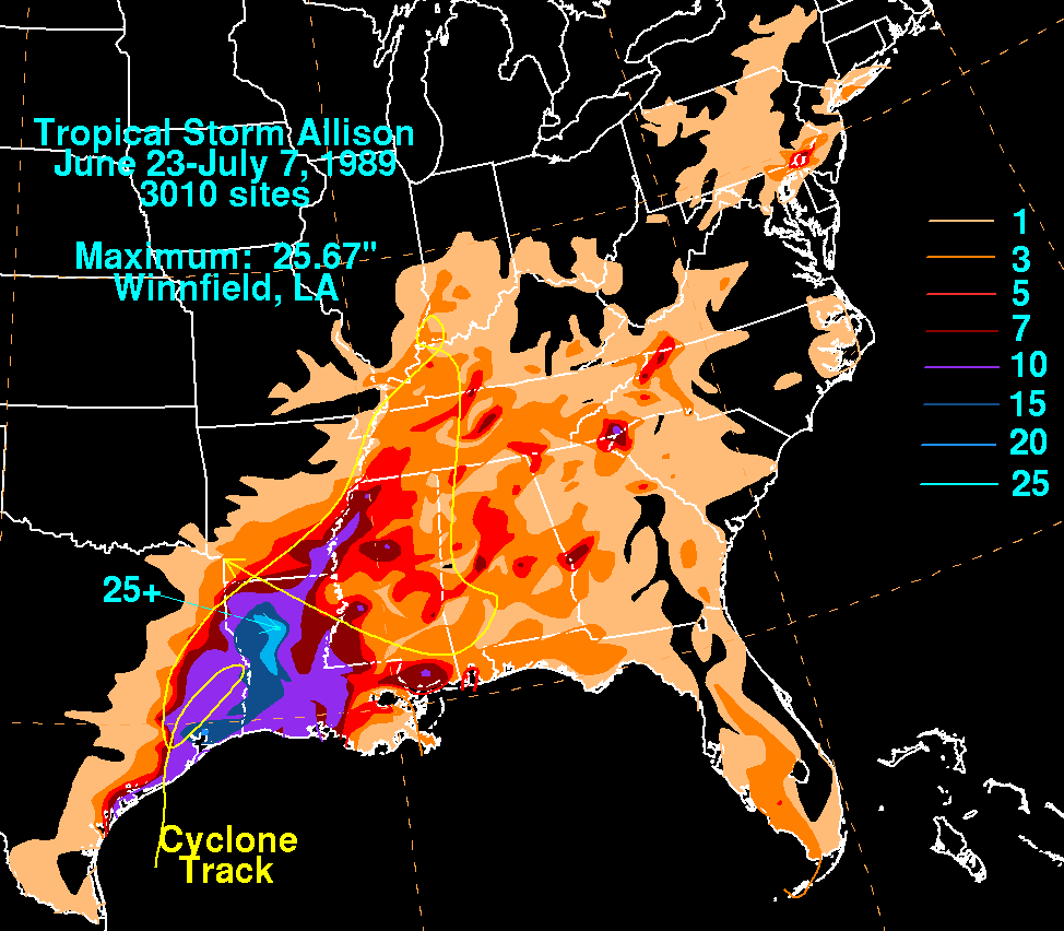 Storm total rainfall map of Tropical Storm Allison during June and July 1989.